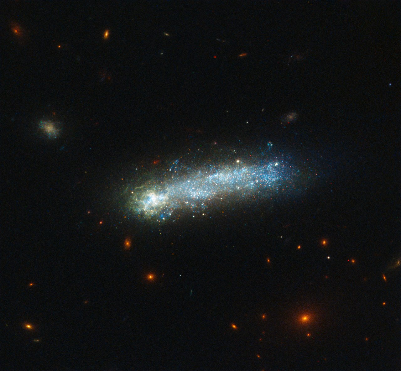 In this new image from the NASA/ESA Hubble Space Telescope, a firestorm of star birth is lighting up one end of the diminutive galaxy LEDA 36252 — also known as Kiso 5649. The galaxy is a member of a class of galaxies called “tadpoles” because of their bright heads and elongated tails. This galaxy resides relatively nearby, at a distance of 80 million light-years. Tadpoles are rare in the local Universe but common in the distant Universe, suggesting that many galaxies pass through a phase like this as they evolve.